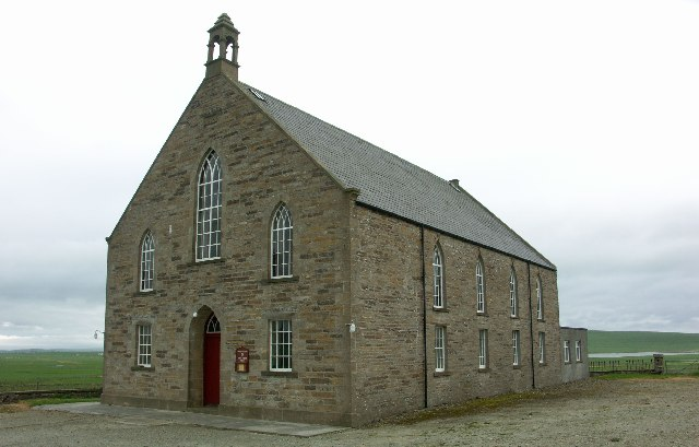 Twatt Church, Birsay, Orkney. There was a discussion going on about place names so ........